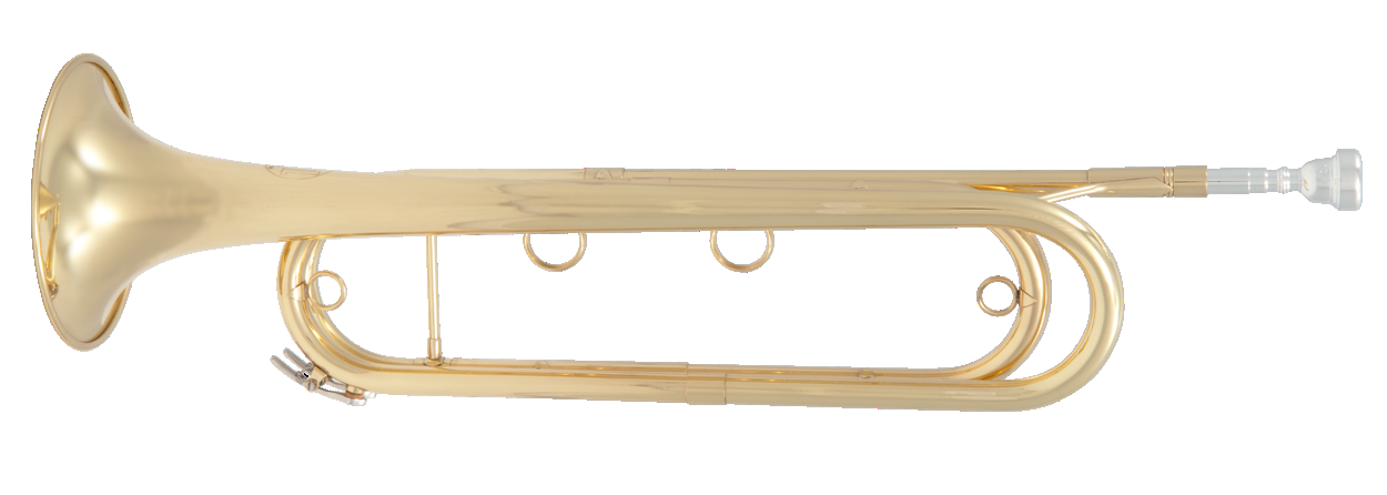 Cavalry Trumpet